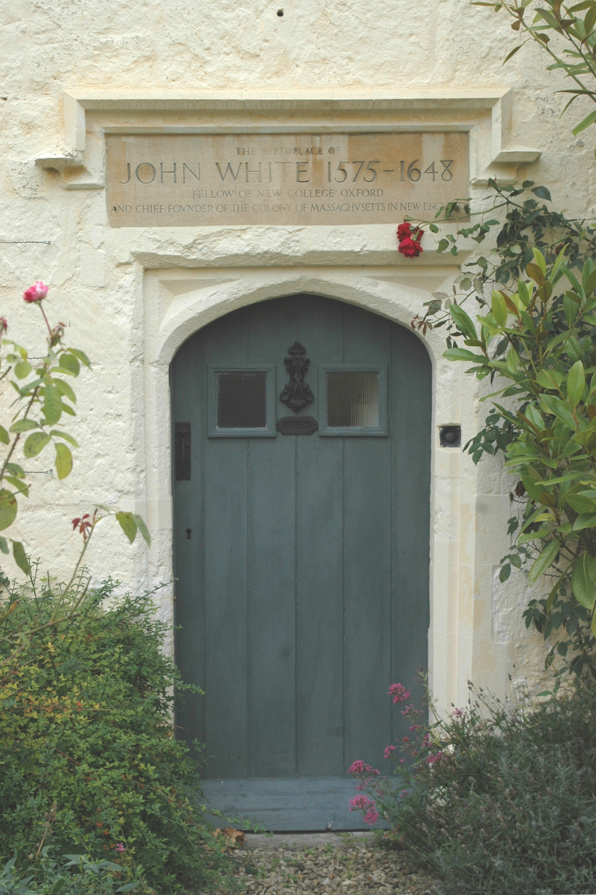 Front door of John White's House, Stanton St John, Oxfordshire.